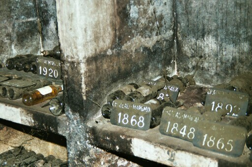 Château Margaux